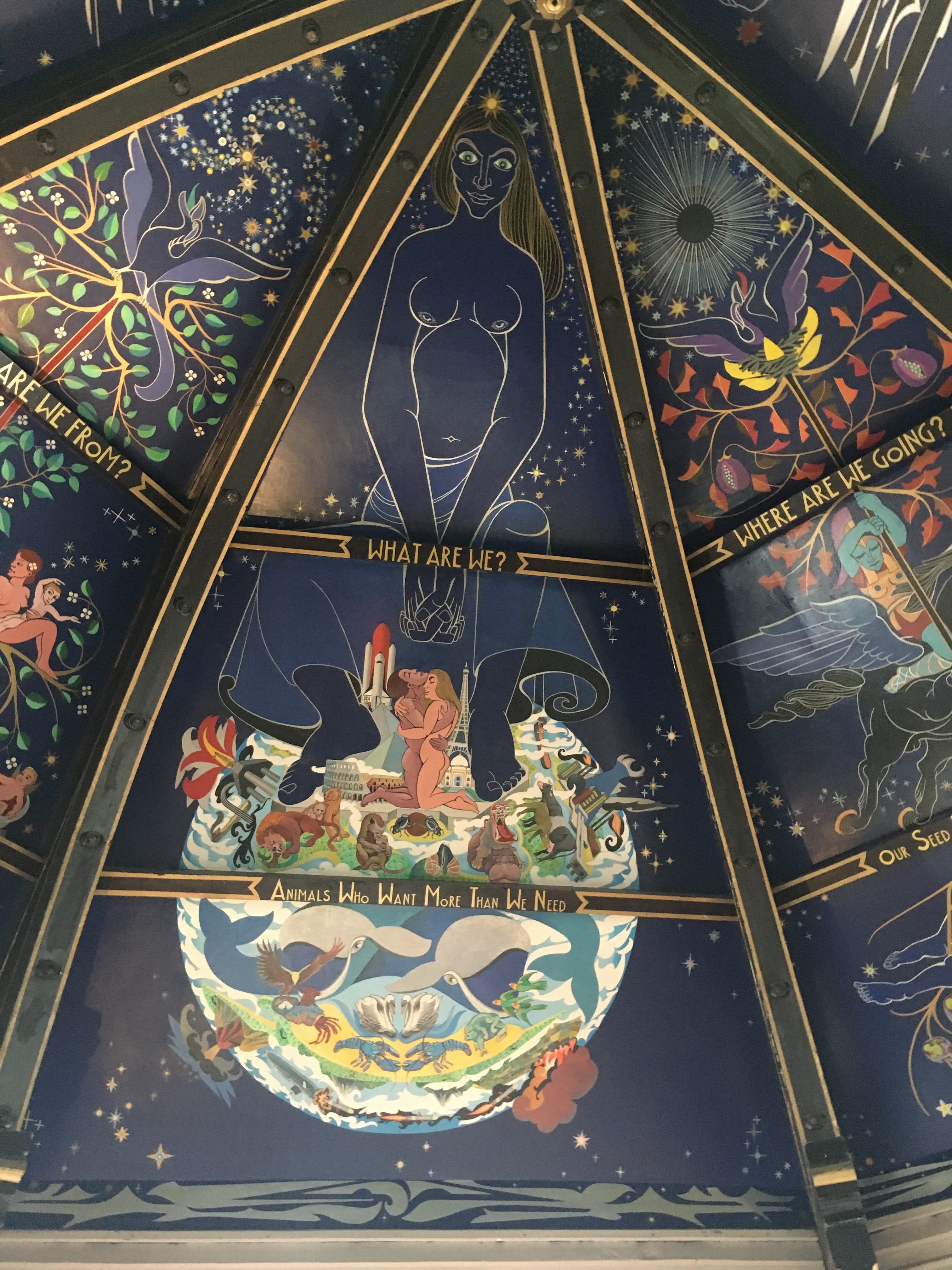 Picture of the Oran Mor Auditorium, showing part of a mural by Alasdair Gray around 2004. Ceiling of apse above the west end gallery.